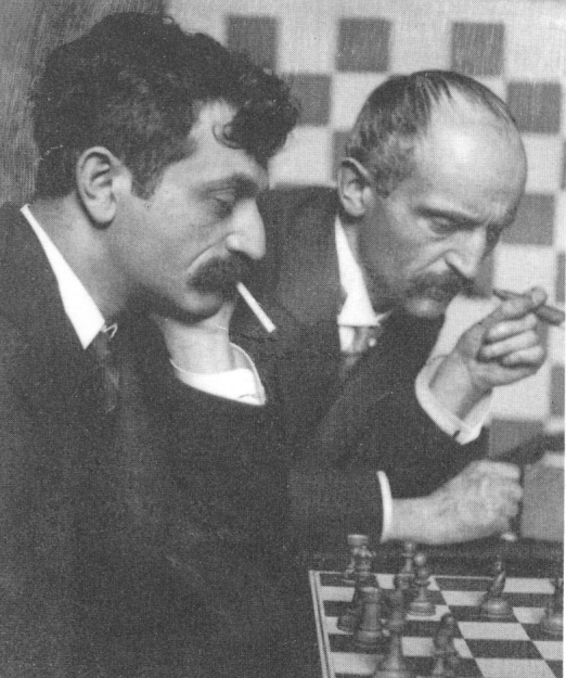 World Chess Champion Dr. Emanuel Lasker (left) and his brother Berthold Lasker in 1907.